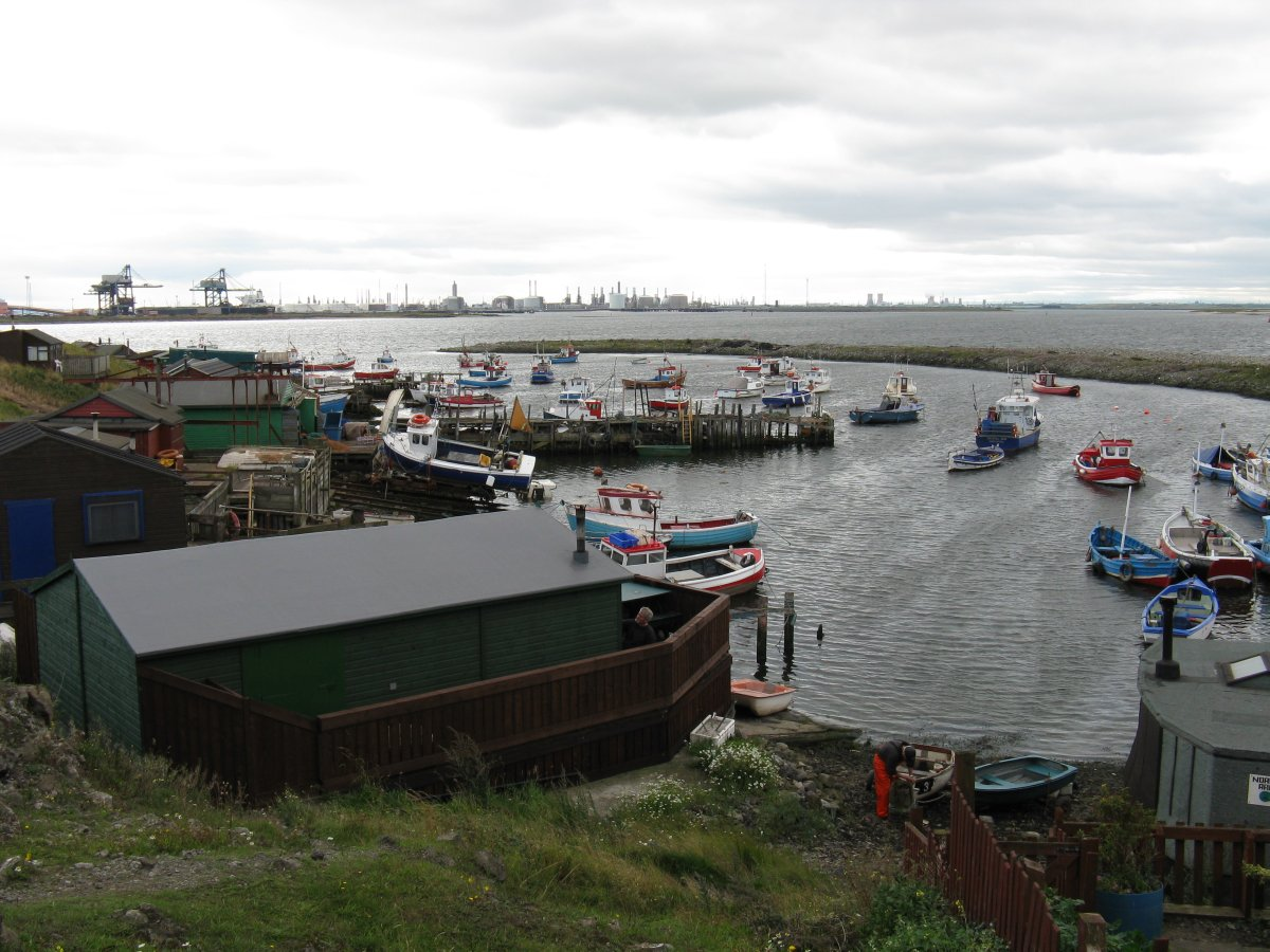 Paddys Hole in Teesmouth, Redcar and Cleveland, UK.